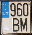 Lithuanian motorcycle plate